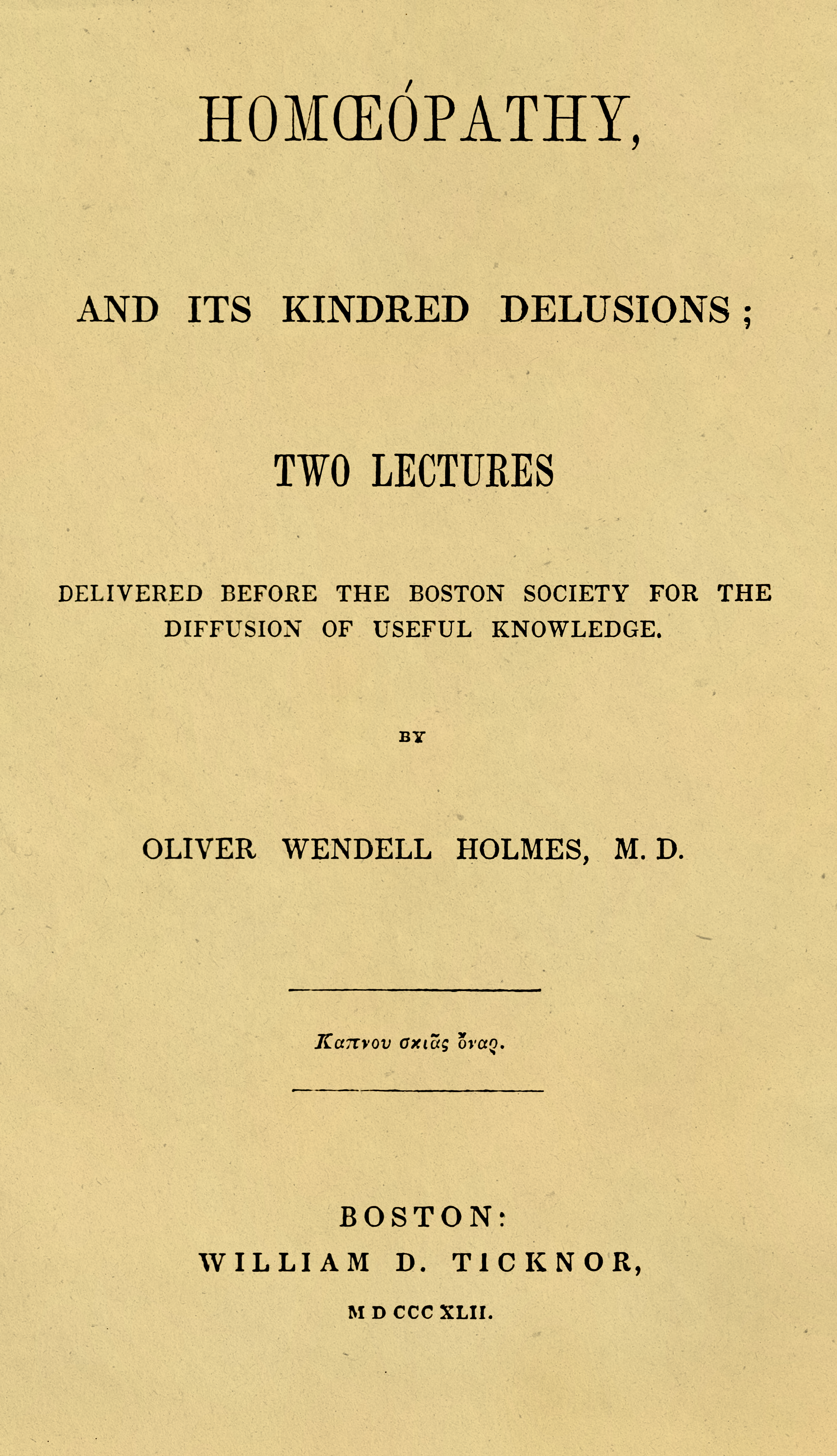 Retouched version of the title page of Oliver Wendell Holmes' Homeopathy and Its Kindred Delusions (1842).